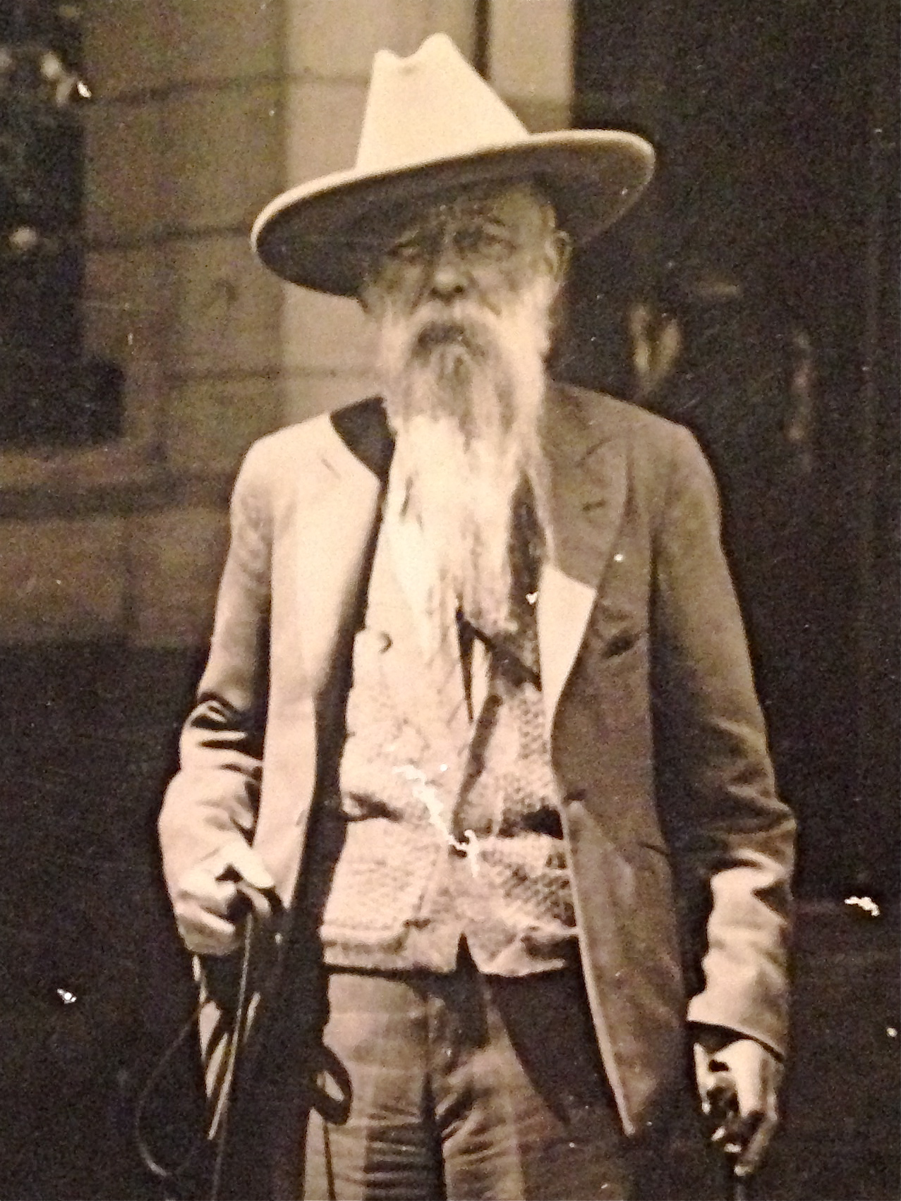 Alfred Aloysius Horn (sic) (also known as Trader Horn cropped from larger photo with english sheep dog (champion) Polard winner Rosebank 1/10/28' imposed on print - signature on print on lower right hand corner. damage to print not factored out, see background in the following clip